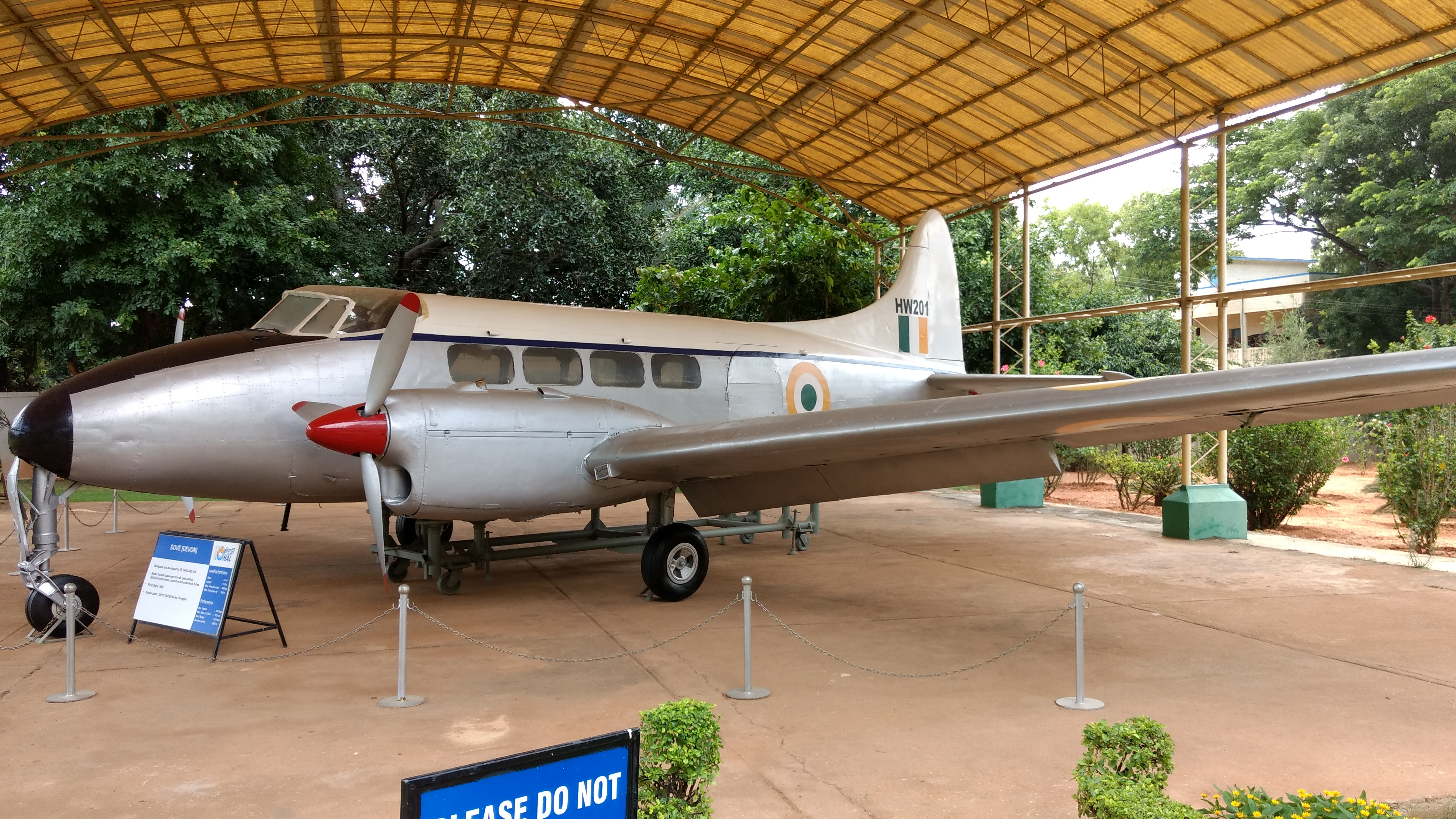 de Havilland Dove (Devon) aircraft